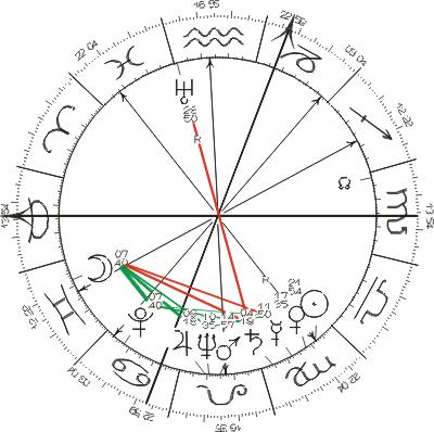 Fausto Coppi's Astrological Birth Chart. Own work